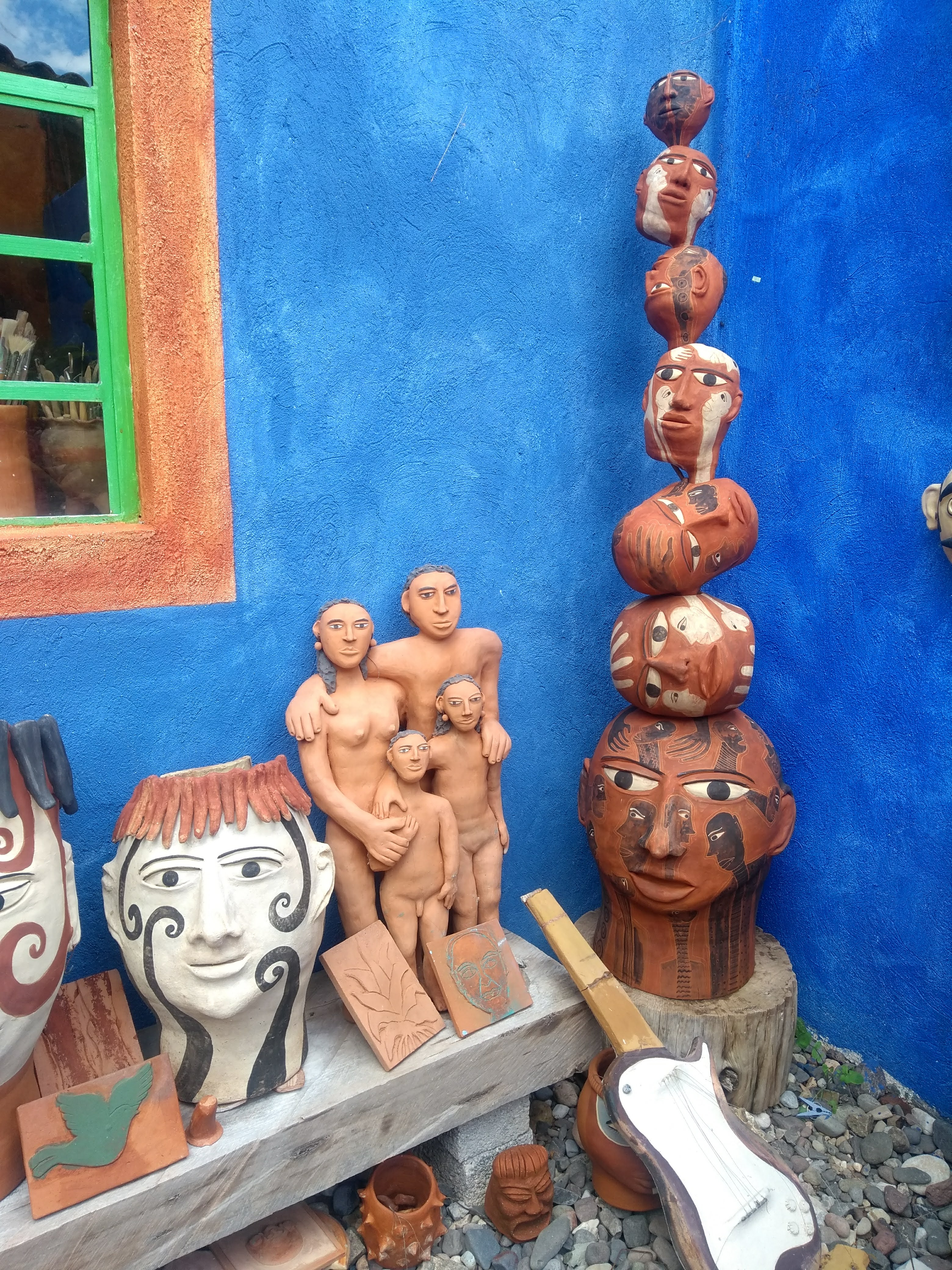 Artwork by Maricela Gómez